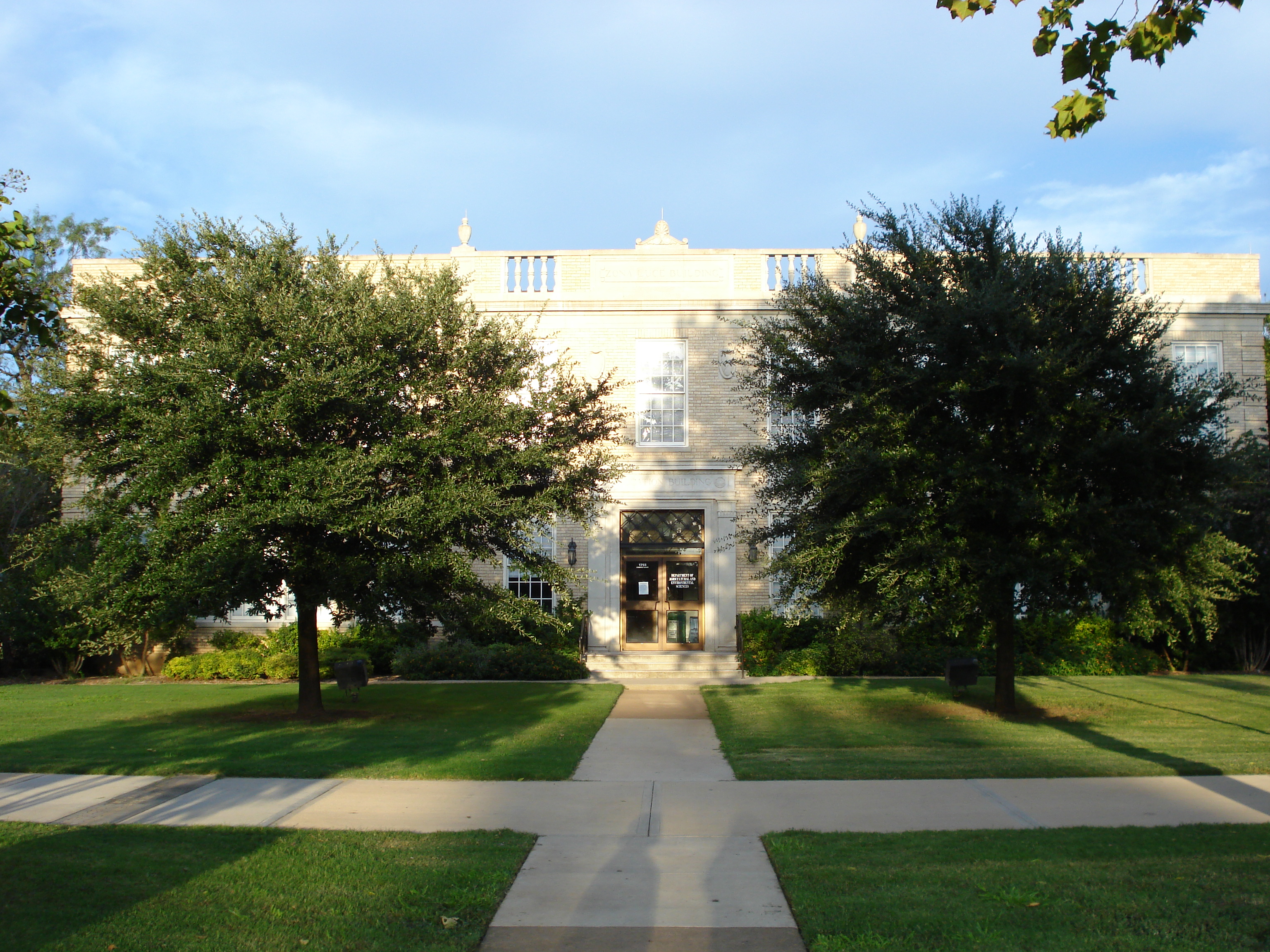 Abilene Christian University's Zona Luce Building - original 1929 school house, now home of the Department of Agricultural and Environmental Sciences.